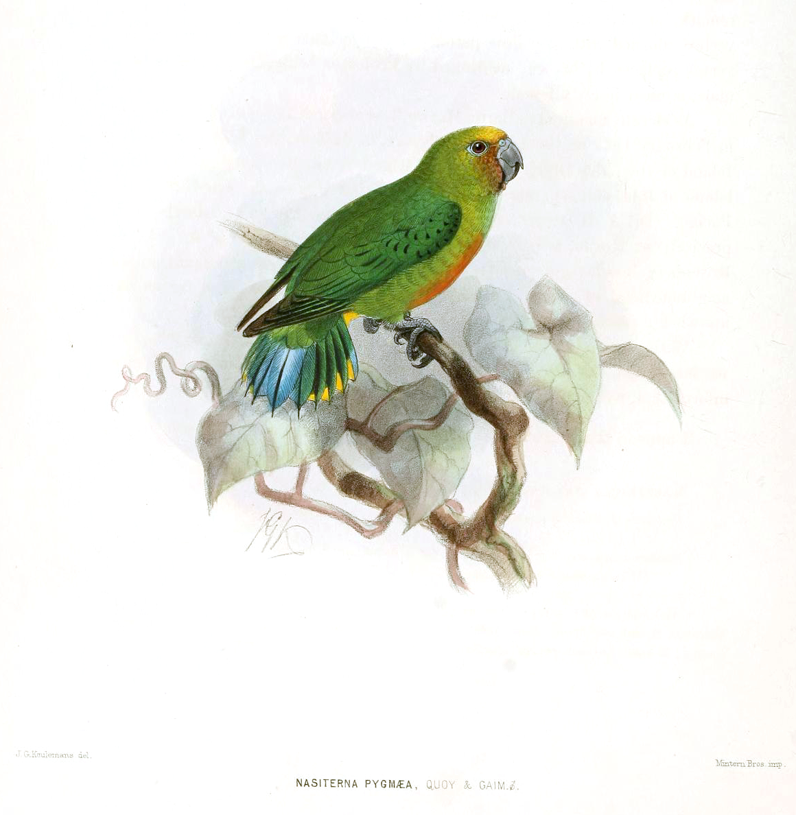 Nasiterna pygmaea = Micropsitta keiensis see: Peters, James Lee; Traylor, Melvin A. (Melvin Alvah); Mayr, Ernst; Greenway, James C. (James Cowan); Paynter, Raymond A; Cottrell, G. W. (George William): Check-list of birds of the world. (1931) Cambridge, Harvard University Press. S.168